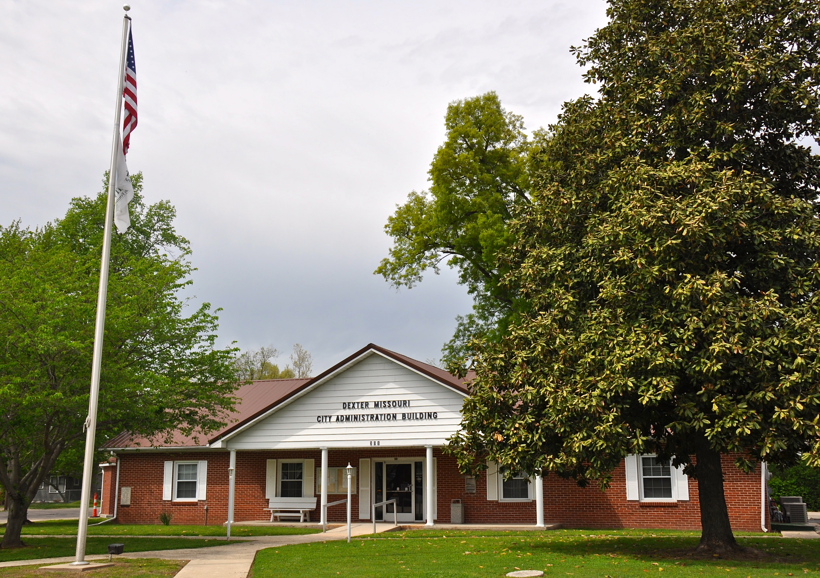 Located at Dexter, Stoddard County, Missouri.